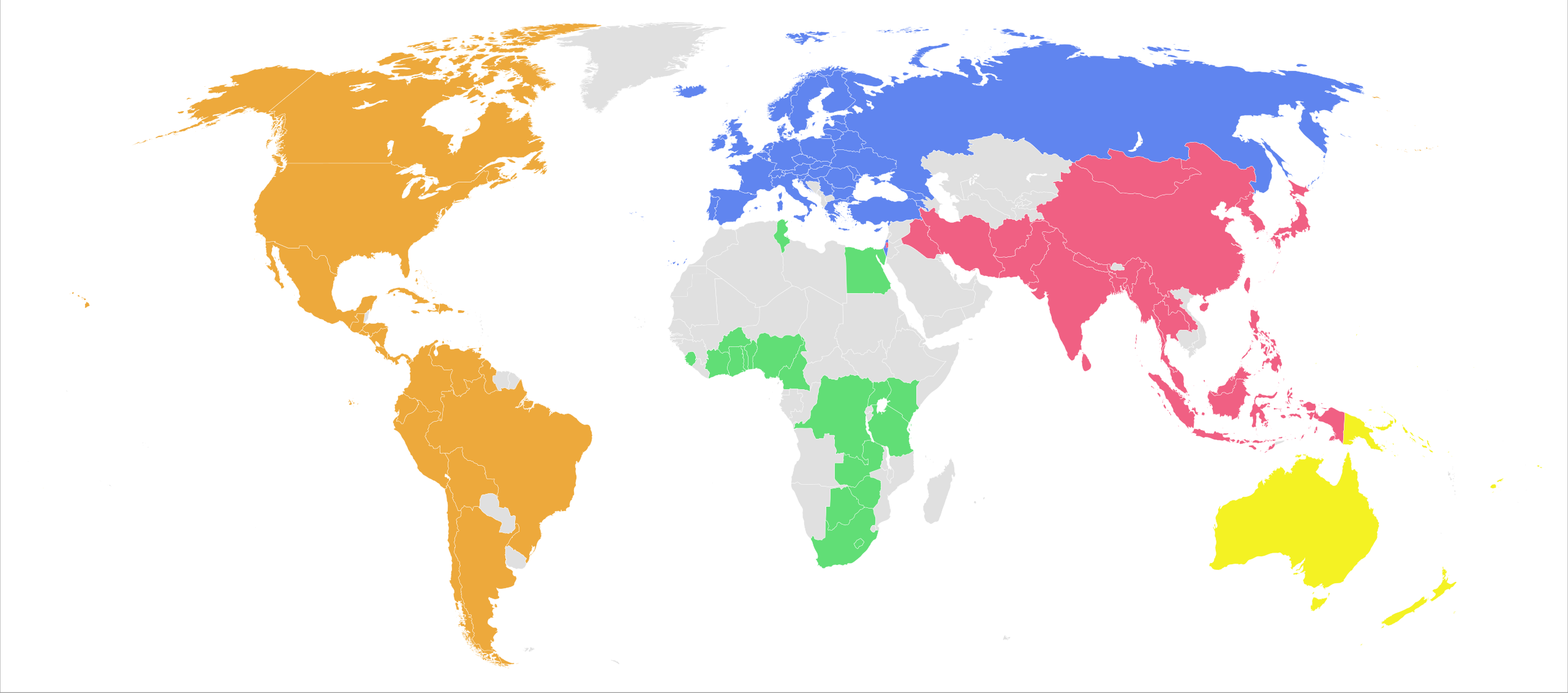 Map of the members of the WBSC according to their confederation: ABSA - African Baseball & Softball Association in Africa COPABE - Confederación Panamericana de Béisbol in the Americas BFA - Baseball Federation of Asia in Asia CEB - Confédération Européenne de Baseball in Europe BCO - Baseball Confederation of Oceania in Oceania